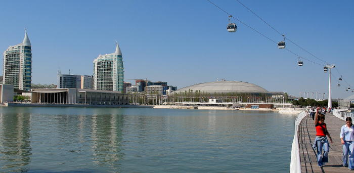 which was the exhibition grounds for the Expo 98.